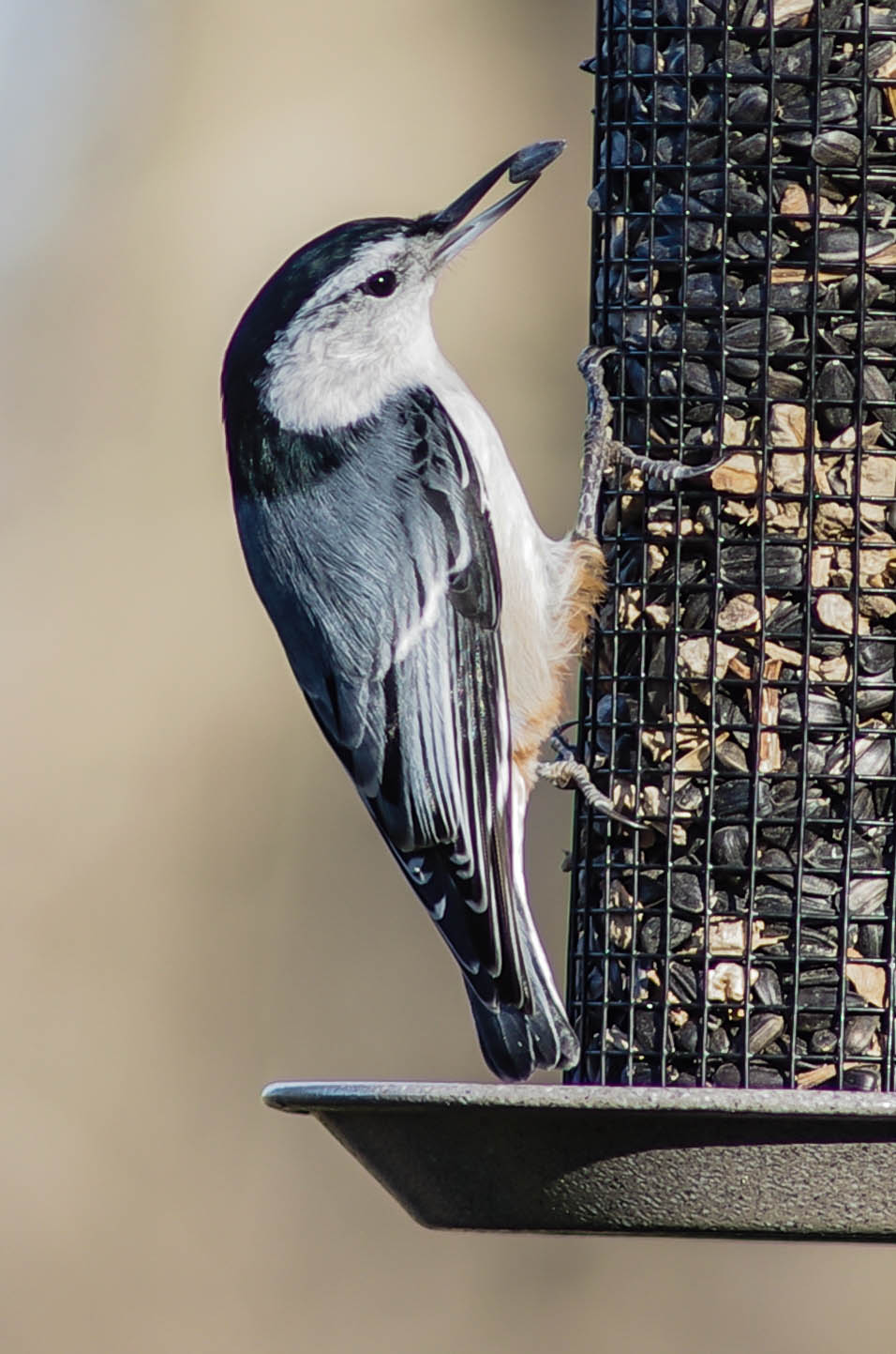 White Breasted Nuthatch